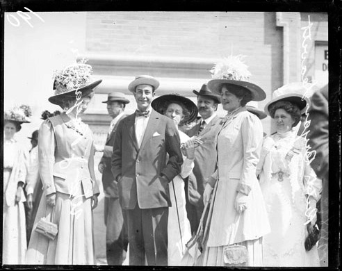 William Jennings Bryan Jr. and his daughter Ruth Bryan Leavitt standing outside with onlookers in Chicago, Illinois.